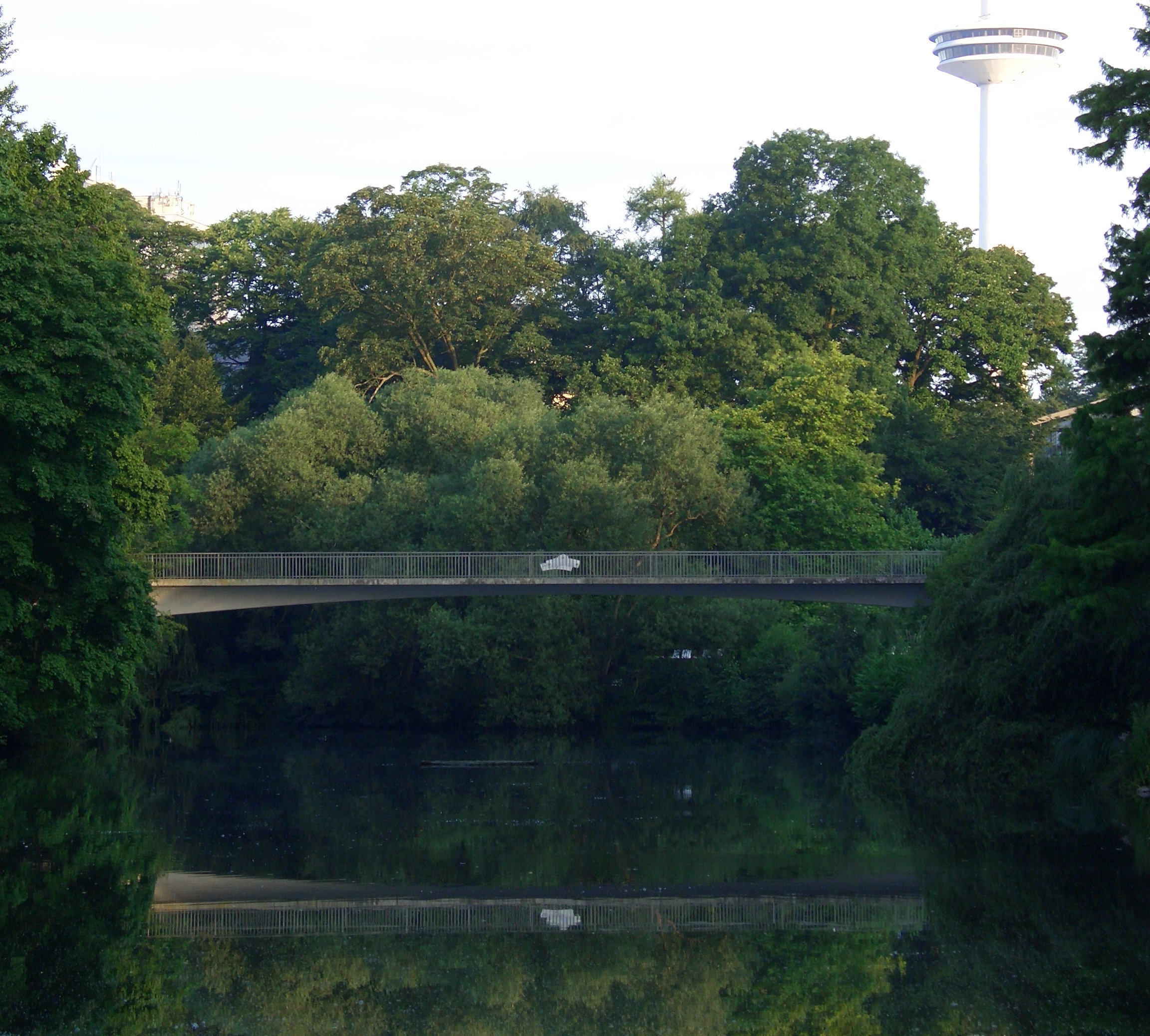 Johan van Valckenburgh Bridge